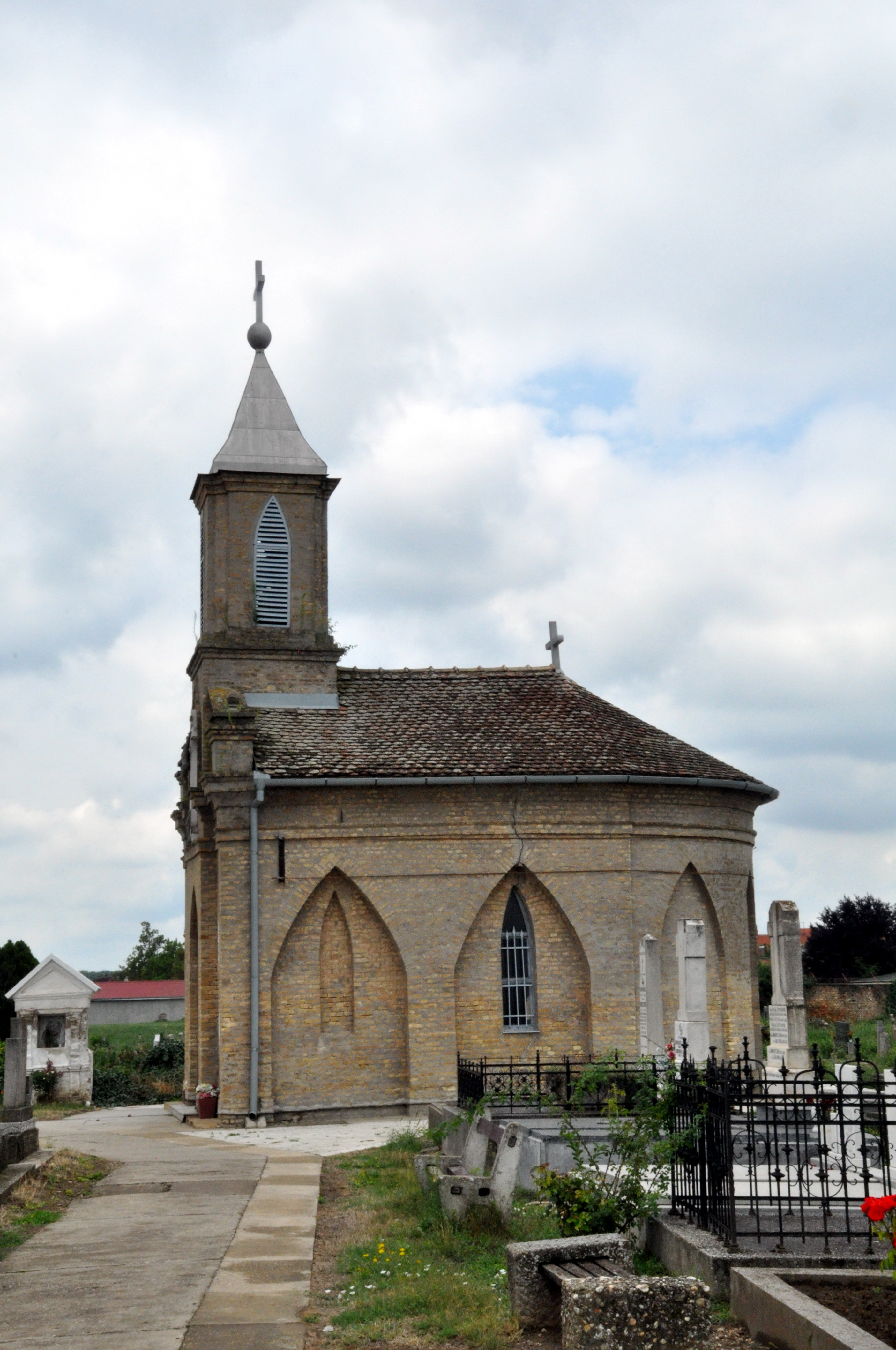 Pulai family chapel in the cemetery in Novi Bečej Српски (ћирилица): Kapela porodice Pulai na groblju u Novom Bečeju